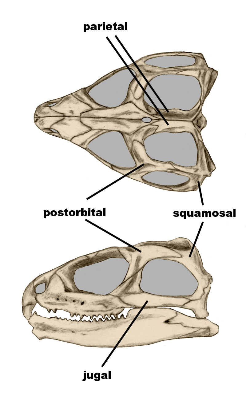 A schematic of the skull of the tuatara (Sphenodon), based on [1], [2]and [3]